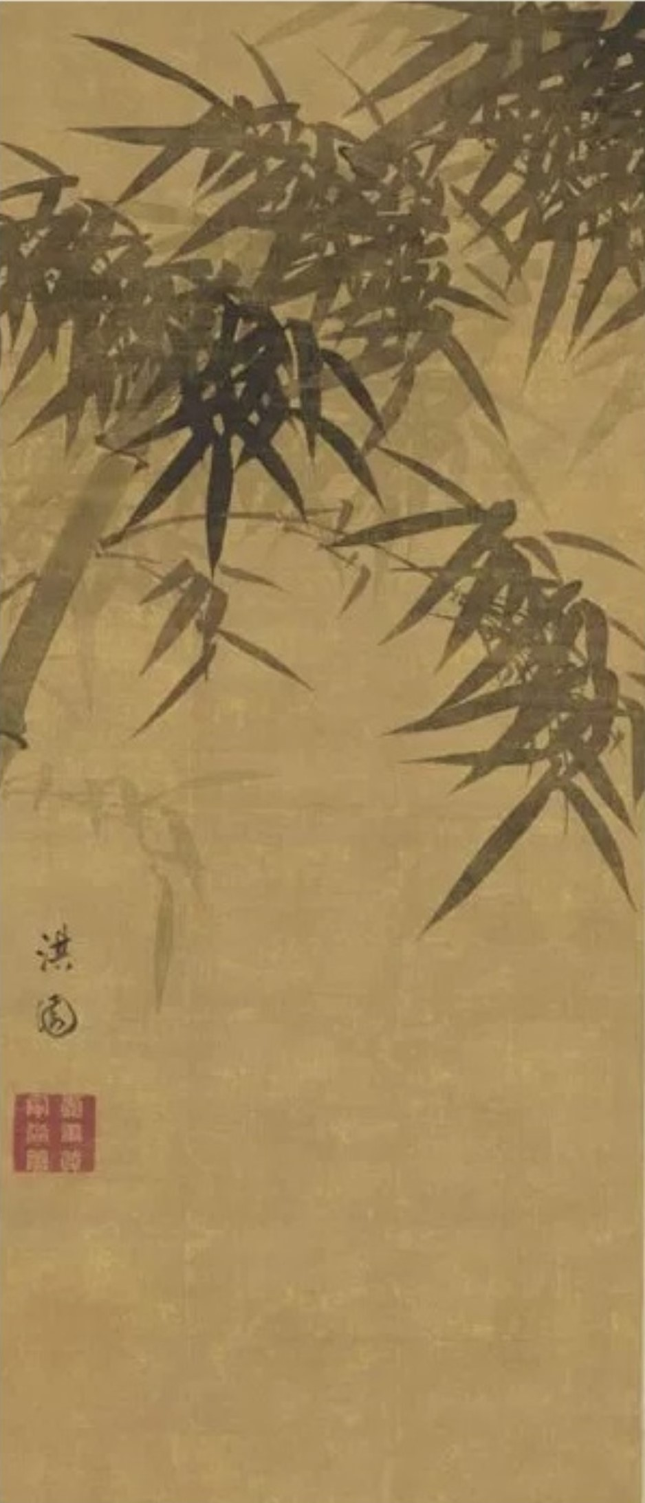 Painting of bamboo